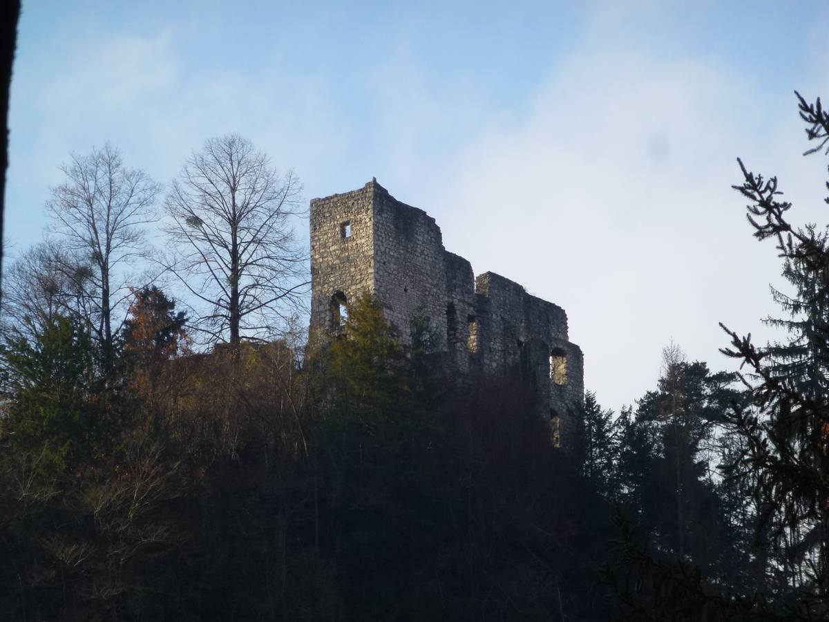 Ruine Karlstein in 83435 Bad ReichenhallThis is a photograph of an architectural monument.